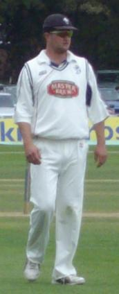 Robert Key (cricketer) in the field for Kent County Cricket Club